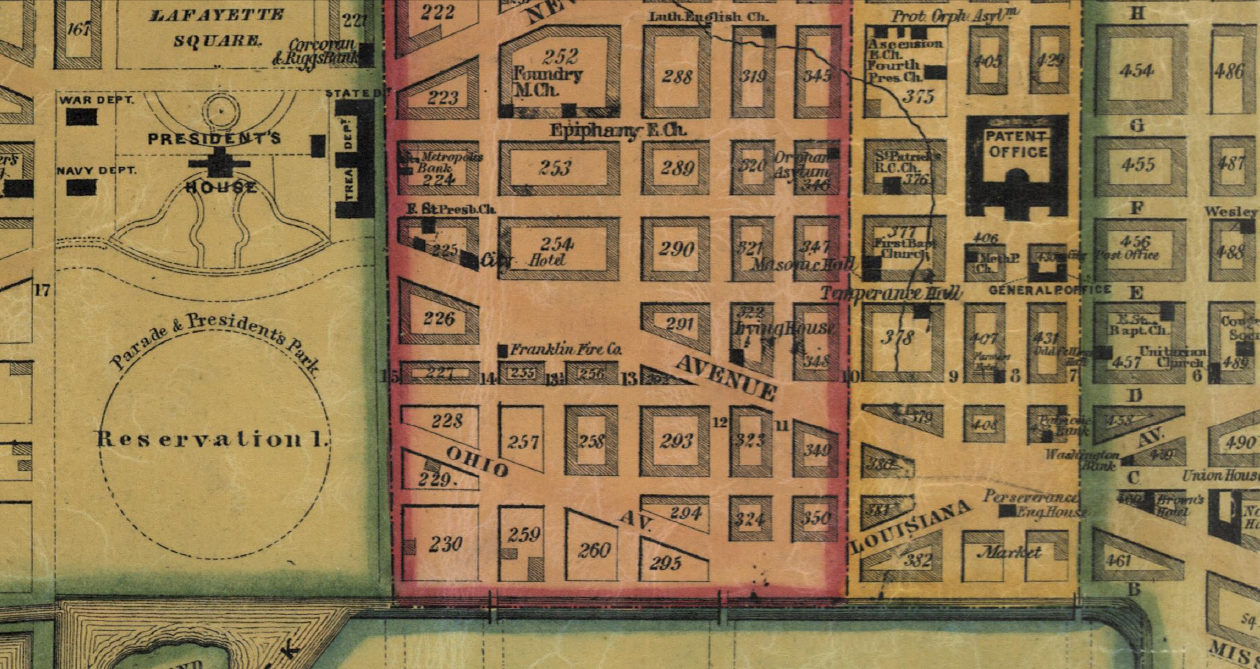 Map of the city of Washington, D.C., published in 1851, showing the area around Federal Triangle as originally planned and built according to the L'Enfant Plan.